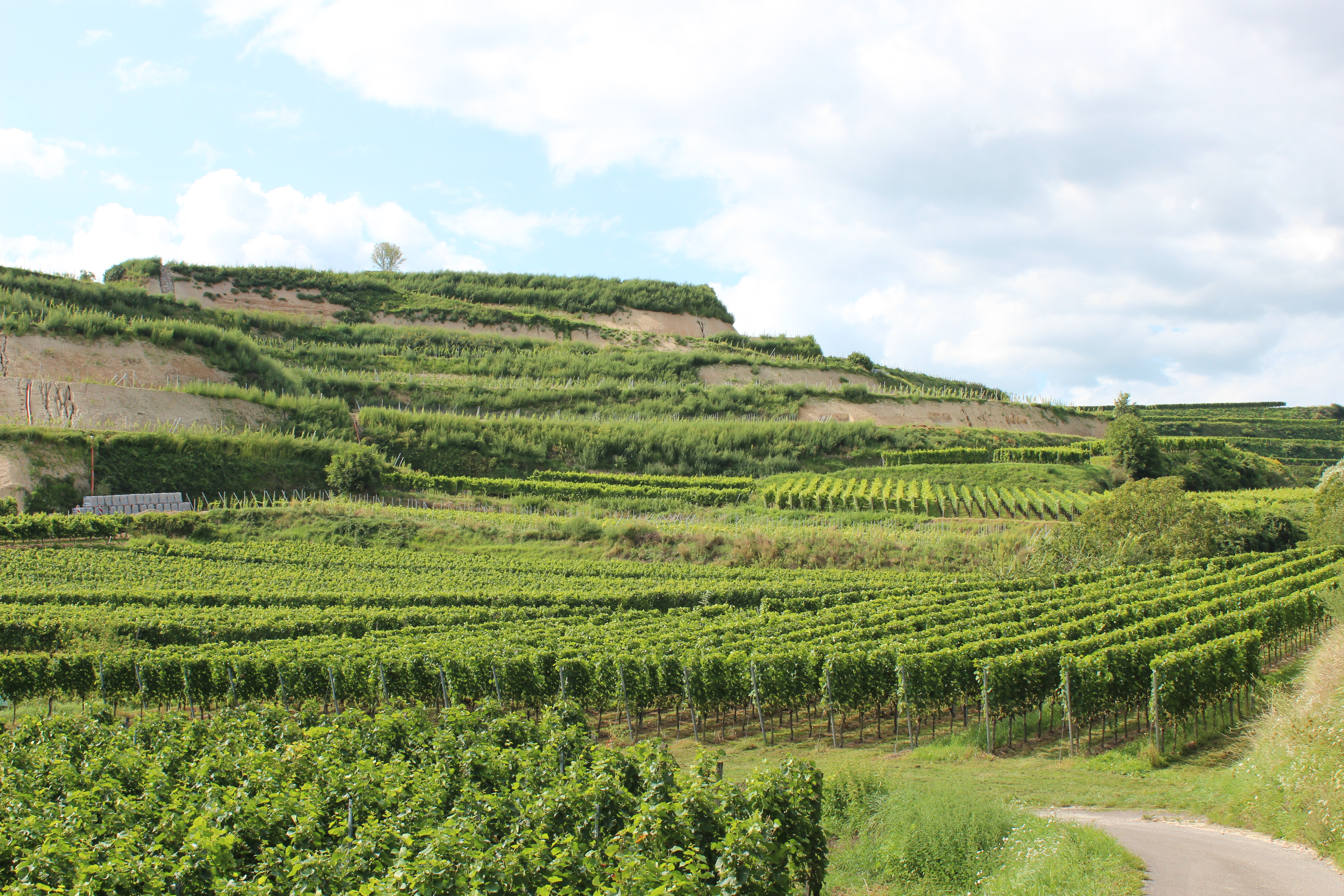 Vineyard at the Kaiserstuhl near Ihringen (Baden-Wuerttemberg, Germany)